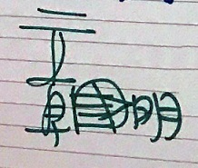 This is Alex Cheung Kwok Ming's signature.